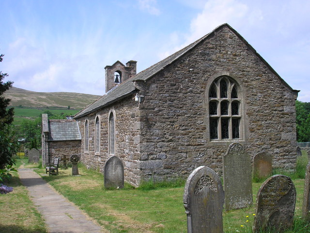 St Mary's Church, Outhgill. This 12thC church was repaired by the indomitable Lady Anne Clifford in the 17thC. The bell is 13thC.